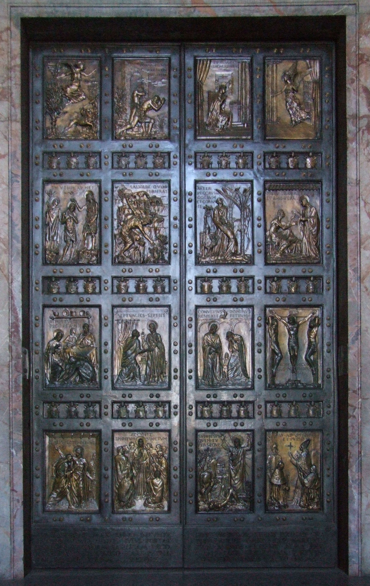 Holy Door in St. Peter's Basilica in Rome. Sculptor: Vico Consorti